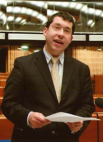 Ronan Mullen at the Council of Europe April 2010.